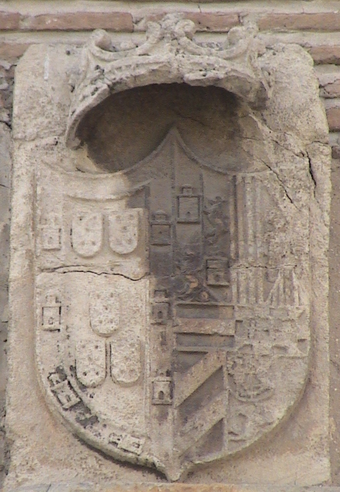 Coat of arms of Joanna of Austria (Princess of Portugal, Infanta of Spain, Archduchess of Austria) at the Royal College of Augustinians of Alcalá de Henares (Community of Madrid - Spain).